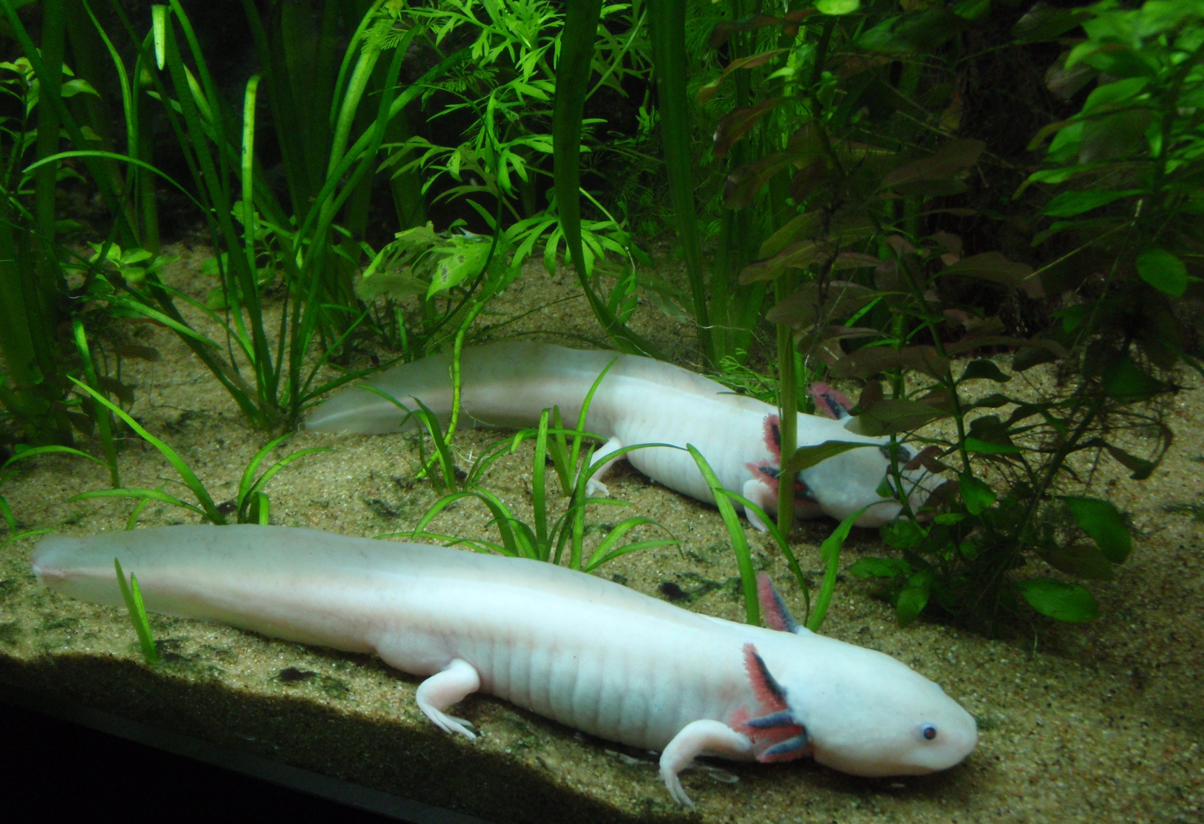 Image of Ambystoma mexicanum taken at the Vancouver Aquarium.